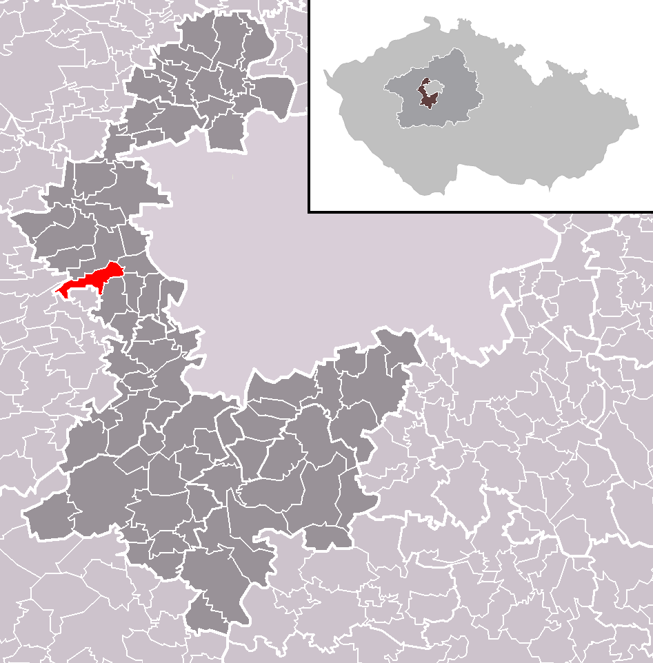 Location of Nučice municipality within Prague-West District and administrative area of Černošice as a Municipality with Extended Competence.